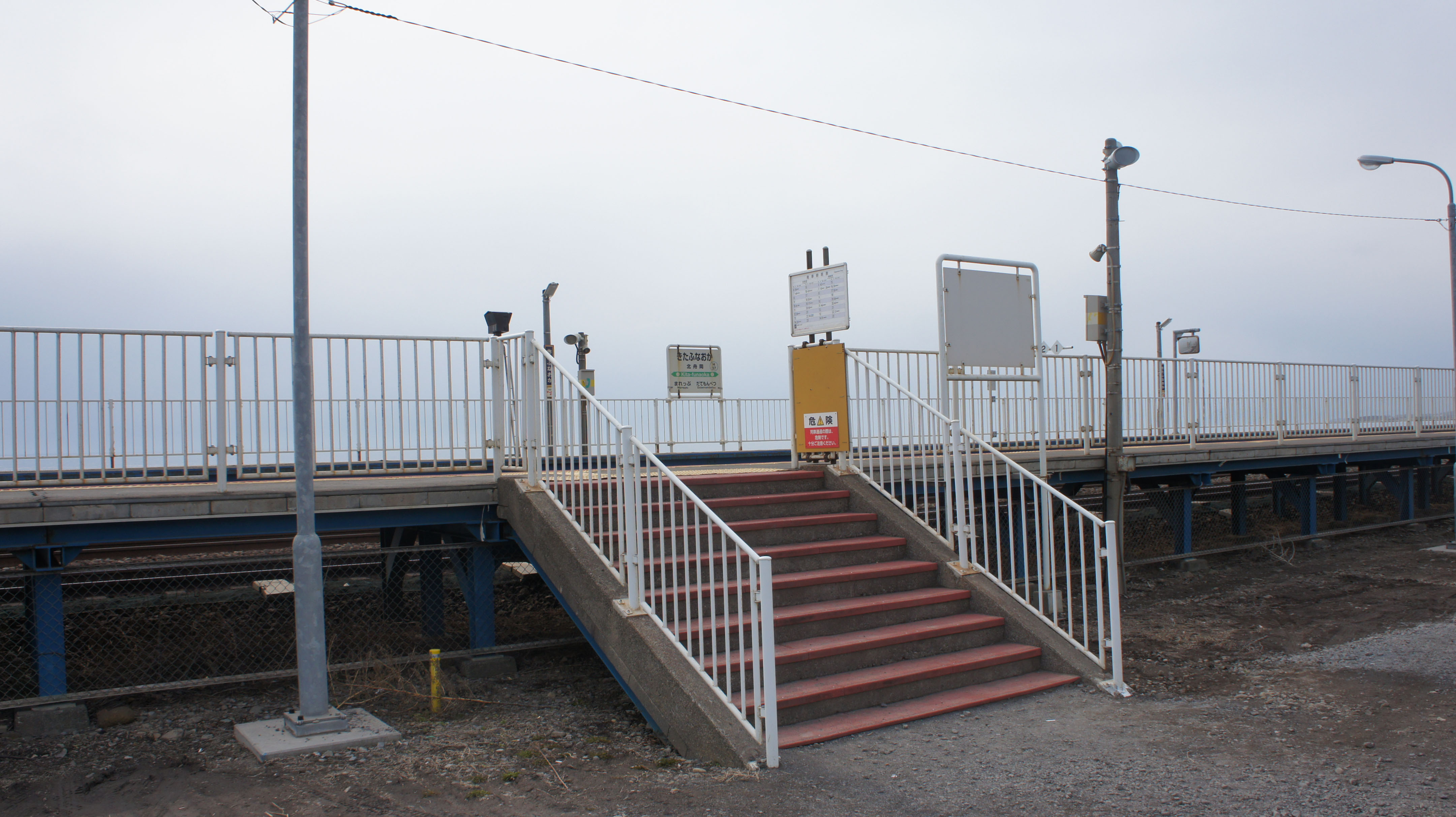 Platform Entrance of JR Muroran-Main-Line Kita-Funaoka Station Sony NEX-3 + E 18-55mm F3.5-5.6 OSS